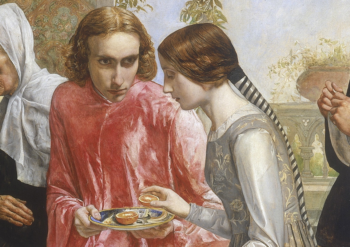 detail: Isabella and her lover, whose head ultimately ends up in a pot of basil.